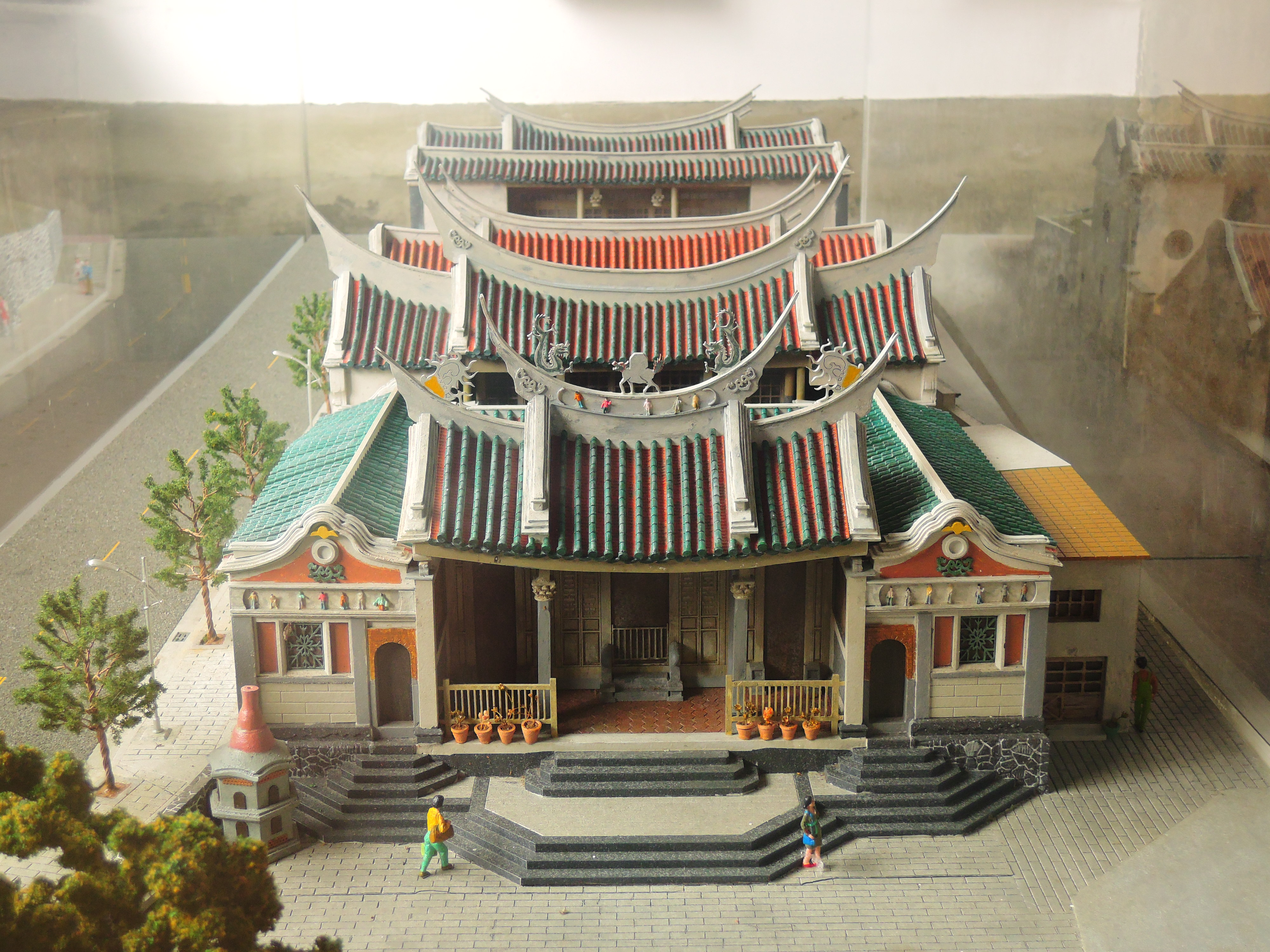 The architectural model of Penghu Mazu Temple, made by Liào Mǐn-Fù.